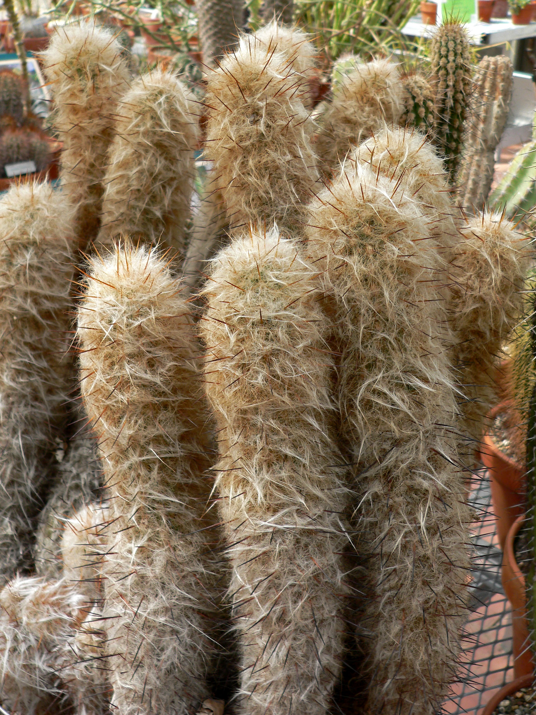 Oreocereus trollii at the University of California Botanical Garden, Berkeley, California